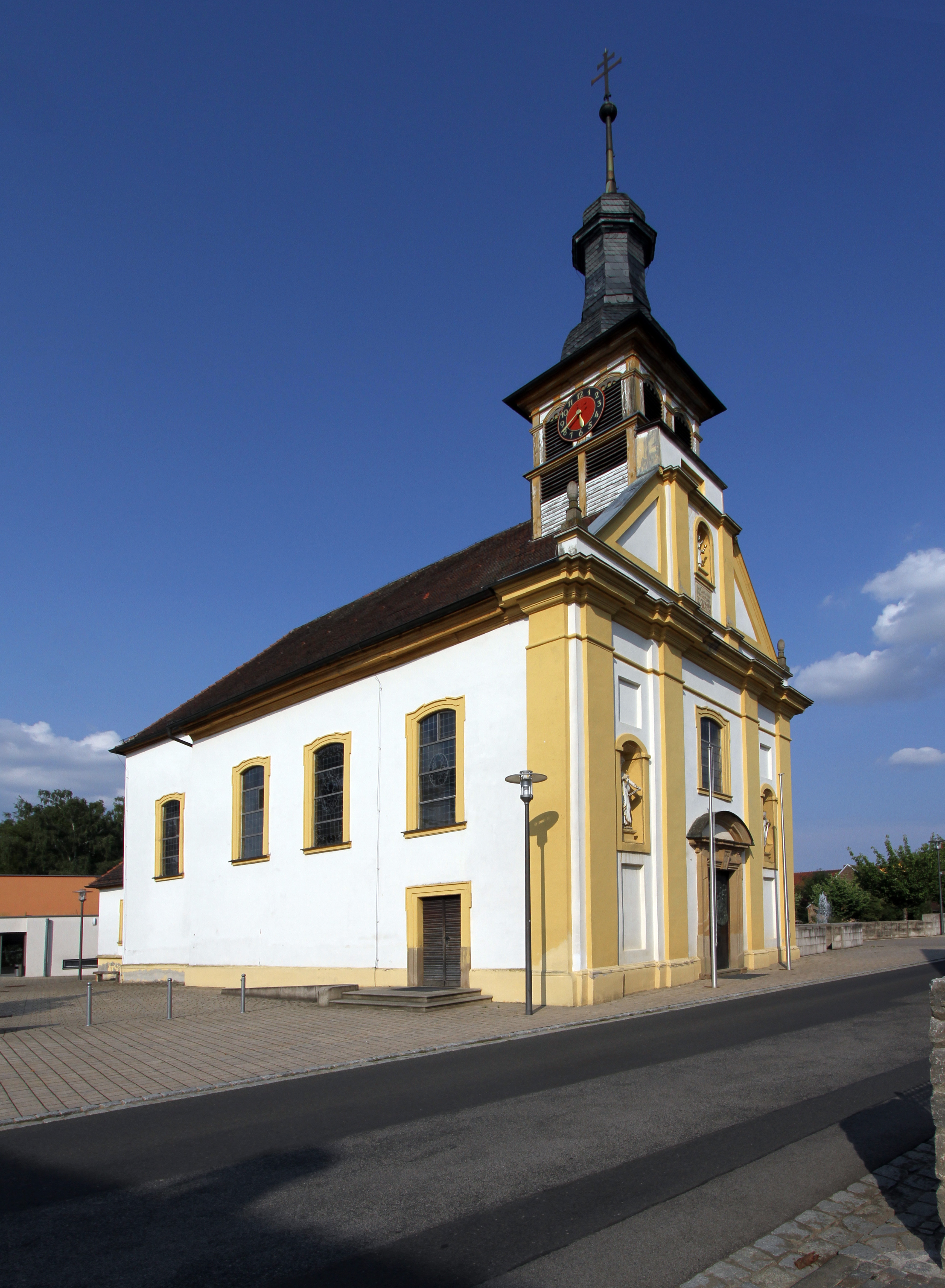 Church of St. Barbara in Oberschwappach